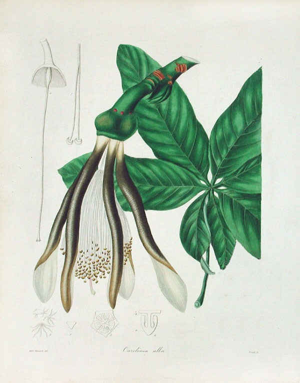 Carolinea alba Lodd. = Pseudobombax grandiflorum (Cav.) A.Robyns